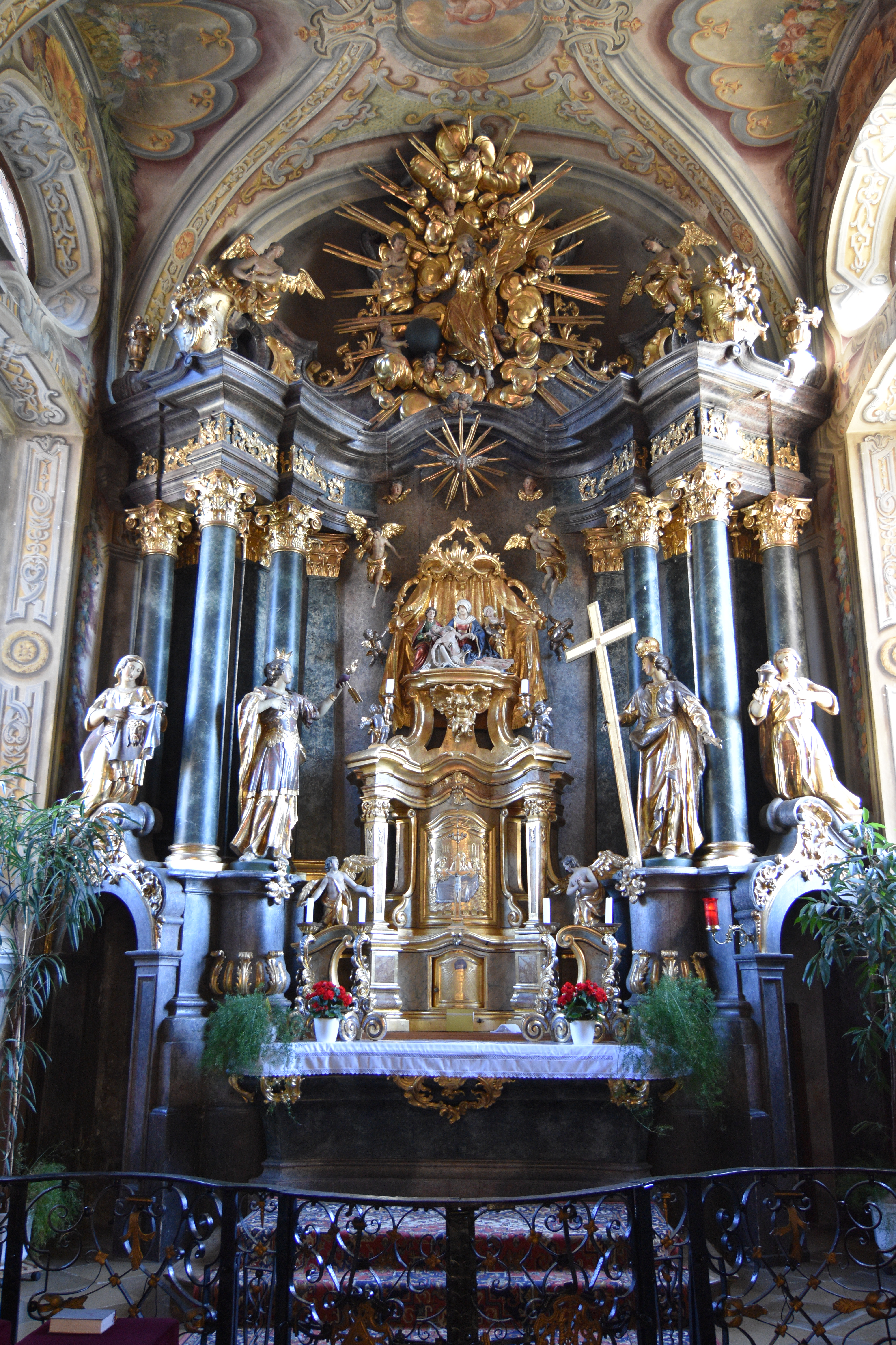 Wallfahrtskirche Maria Hasel, Pinggau - Interior